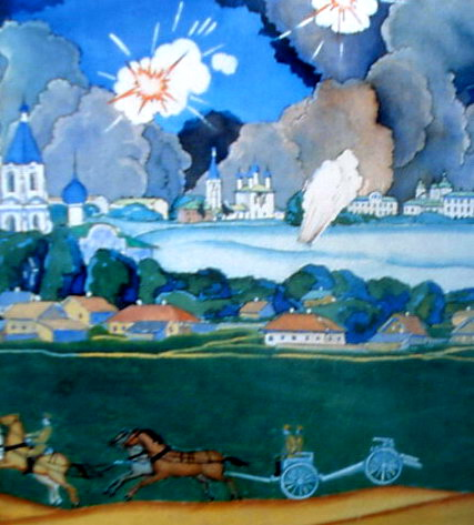 The fire in Yaroslavl on 6.1918 (fragment). A.I. Malygin. 1928.